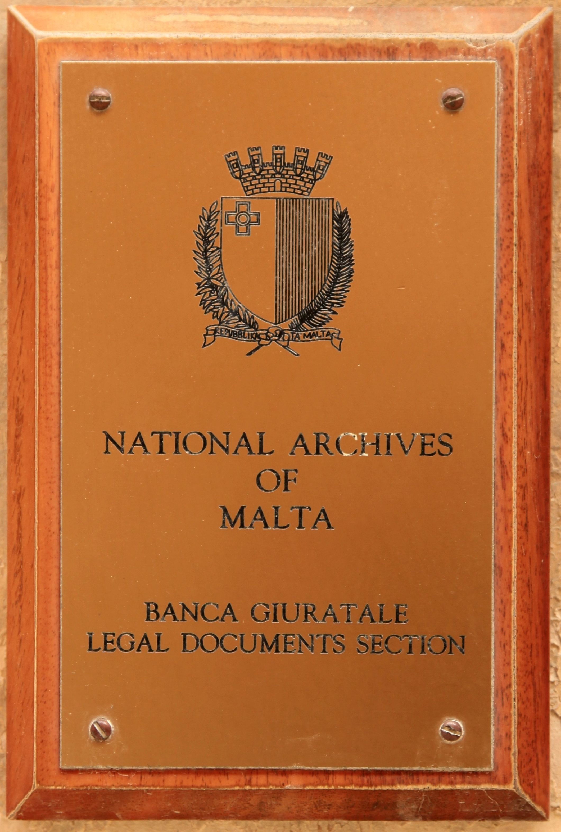 Banka Ġuratali, National Archives, Triq Villegaignon in Mdina, Malta